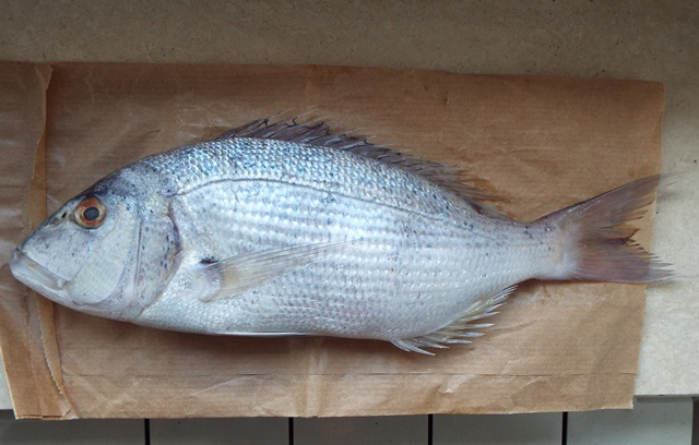 Dentex dentex collected in Northern Tyrrhenian sea (Italy).